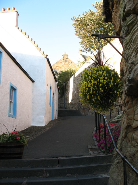 Cove Wynd, Pittenweem. A steep [with steps!] and narrow street leading up from the harbourside to the main street of the village. St Fillans Cave is a few metres behind the photographer.